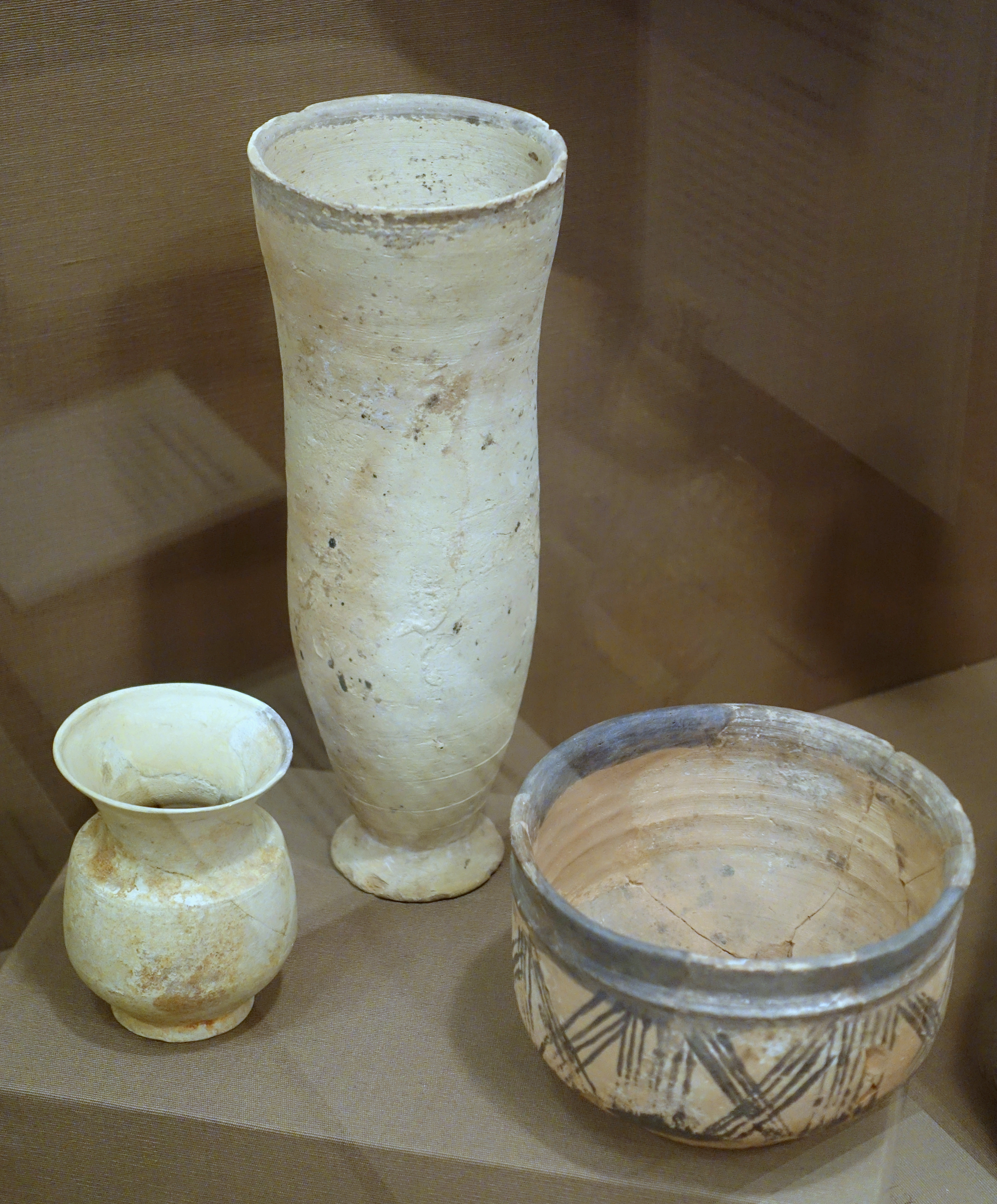 Exhibit in the Oriental Institute Museum, University of Chicago, Chicago, Illinois, USA. This work is old enough so that it is in the public domain.